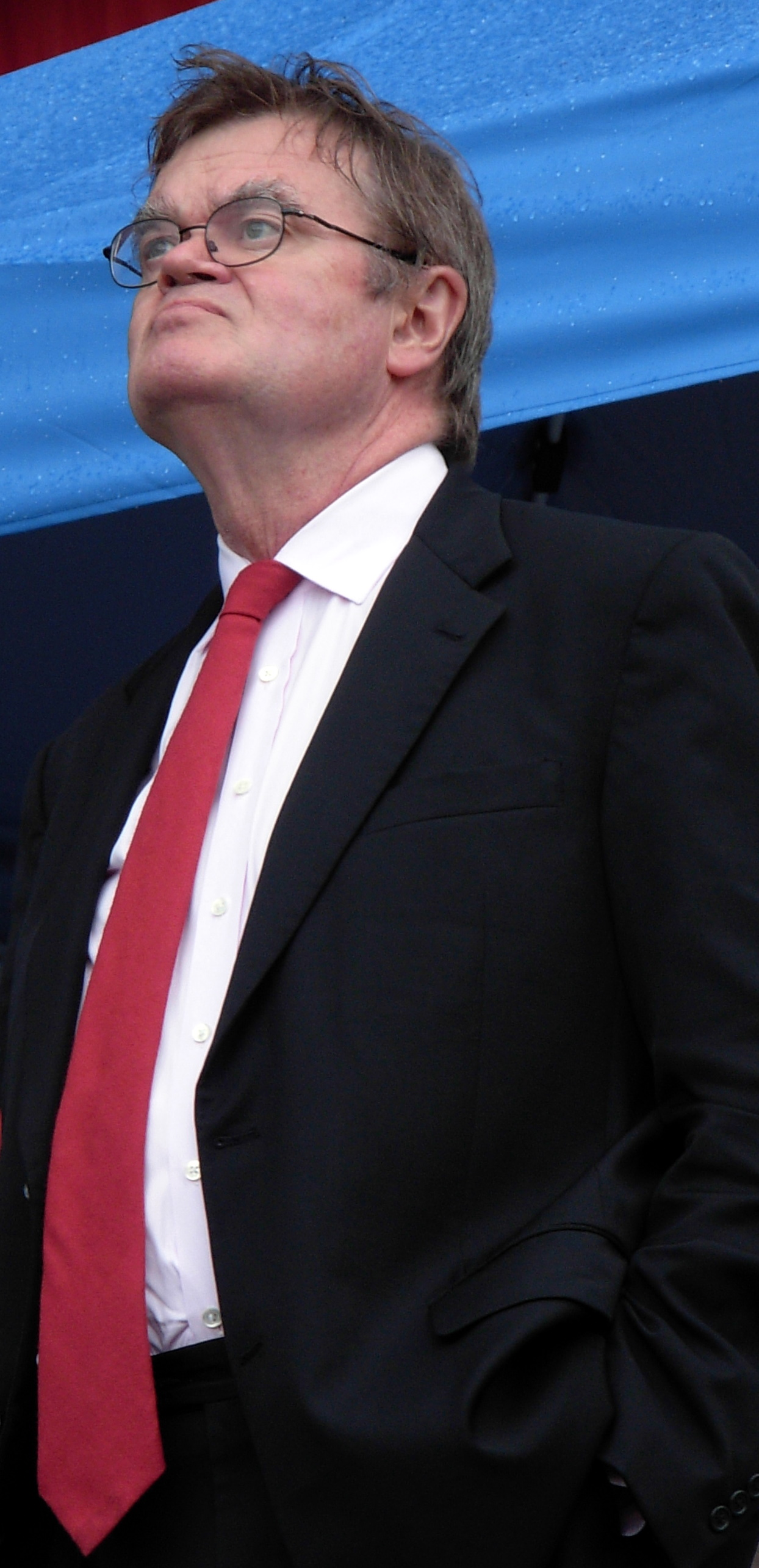 Garrison Keillor looking at rainclouds moments before a live outdoor radio broadcast from Lanesboro, Minnesota, United States